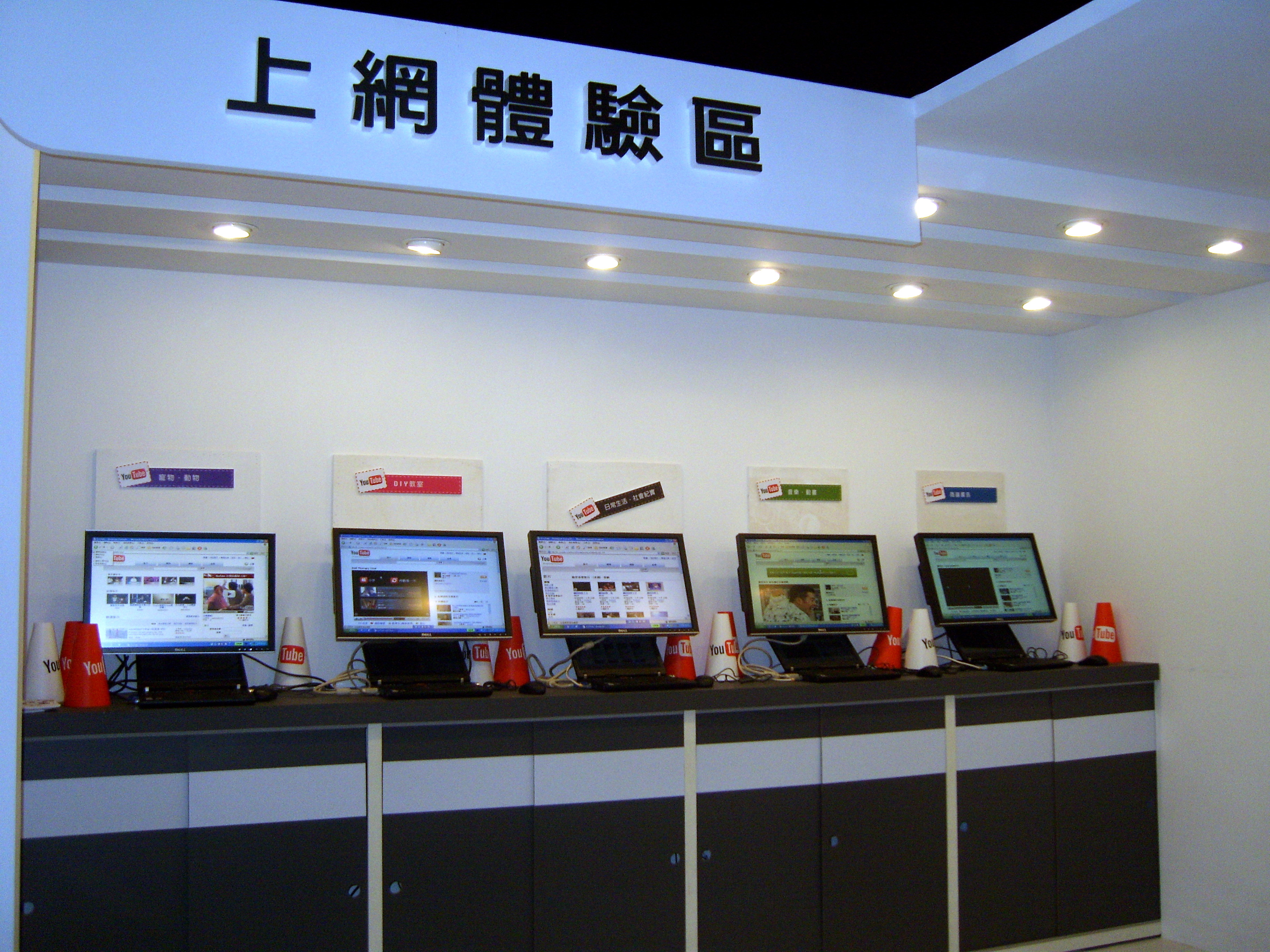 Experiencing Area of YouTube Taiwan Launch Activity.